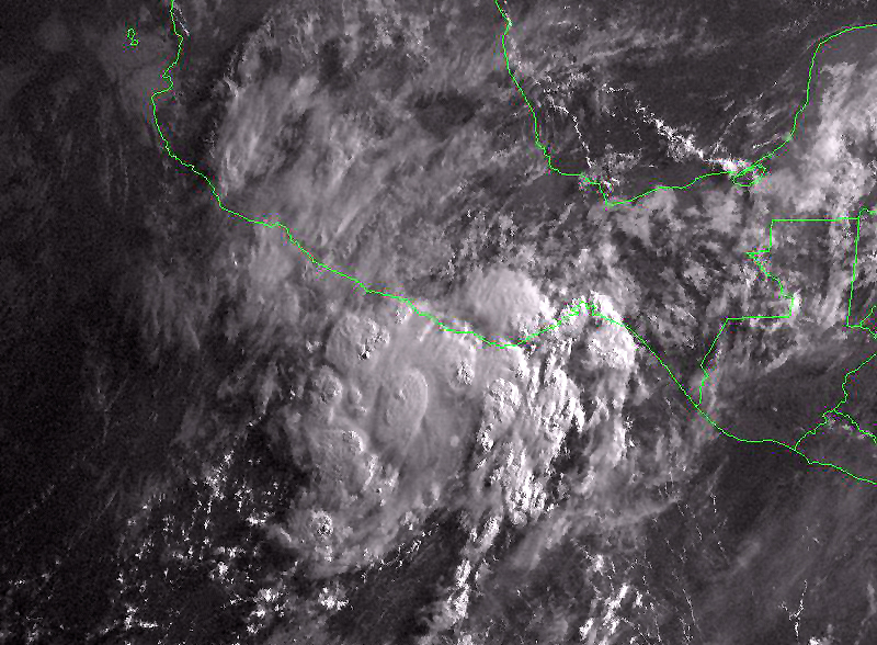 1997's Tropical Storm Blanca. Source is: [1]